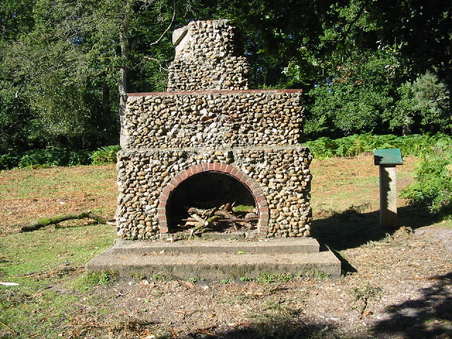 The Portuguese Fireplace. This is the site of a hutted camp occupied by a unit of the Portuguese army during the first world war. The unit assisted the depleted local labour force in producing timber for the war effort. The Forestry Commission have retained this fireplace from the cookhouse as a memorial to the men who lived and worked here.